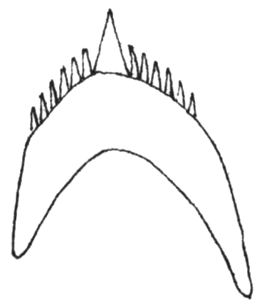 Drawing of the denticle of Fiona pinnata.